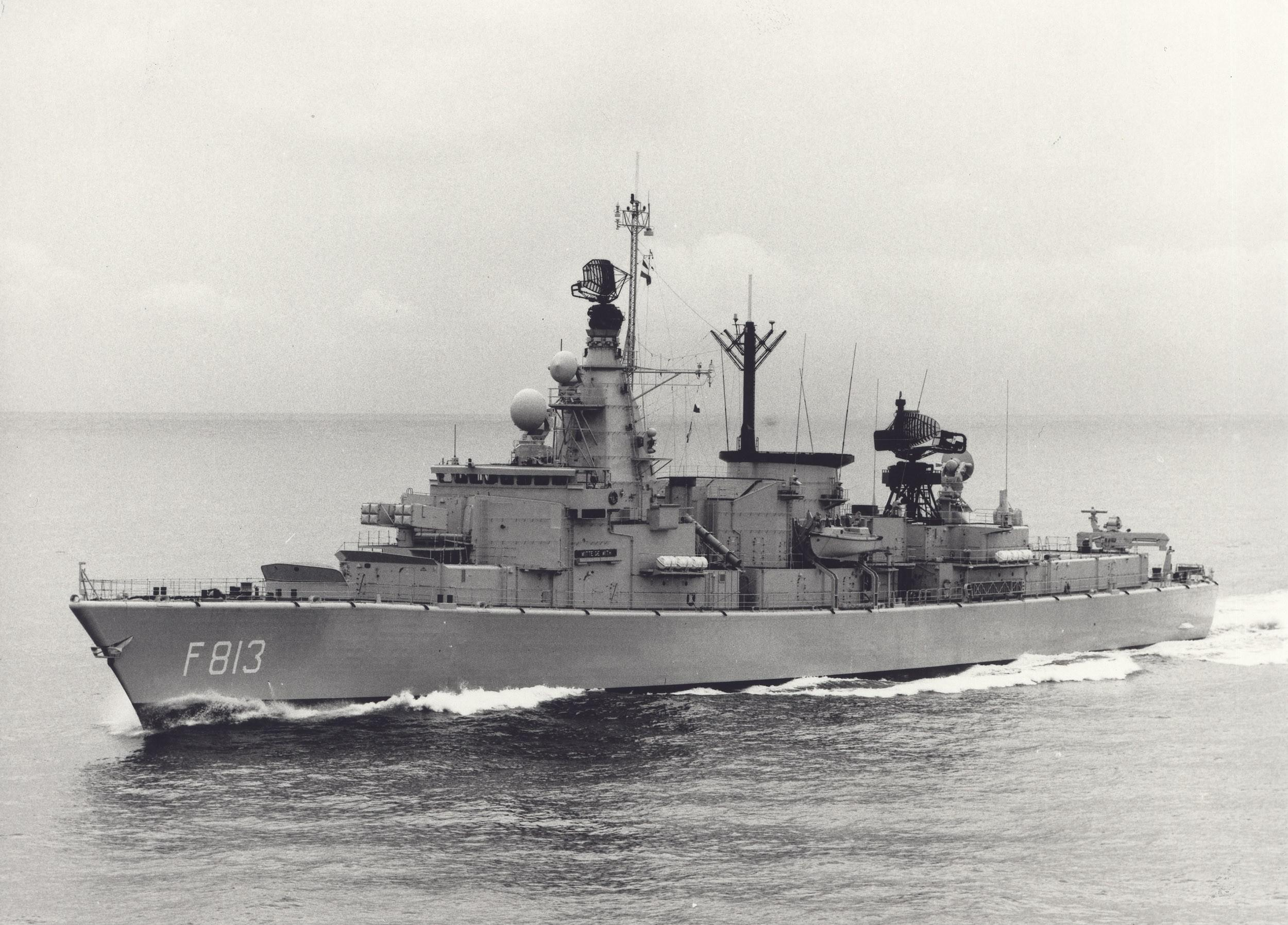 HNLMS Witte de With, a Jacob van Heemskerck-class frigate